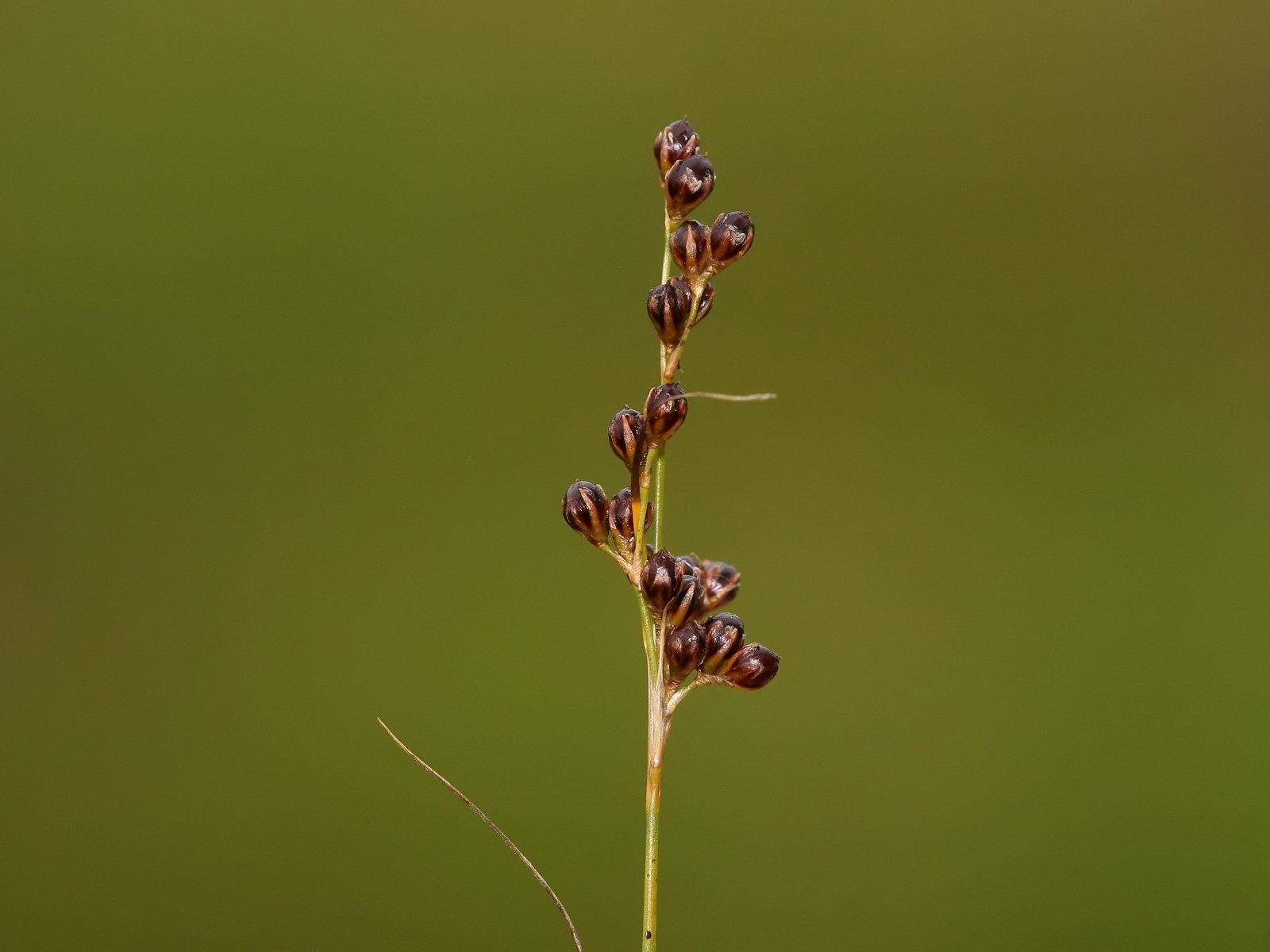 Platthalm-Binse (Juncus compressus)